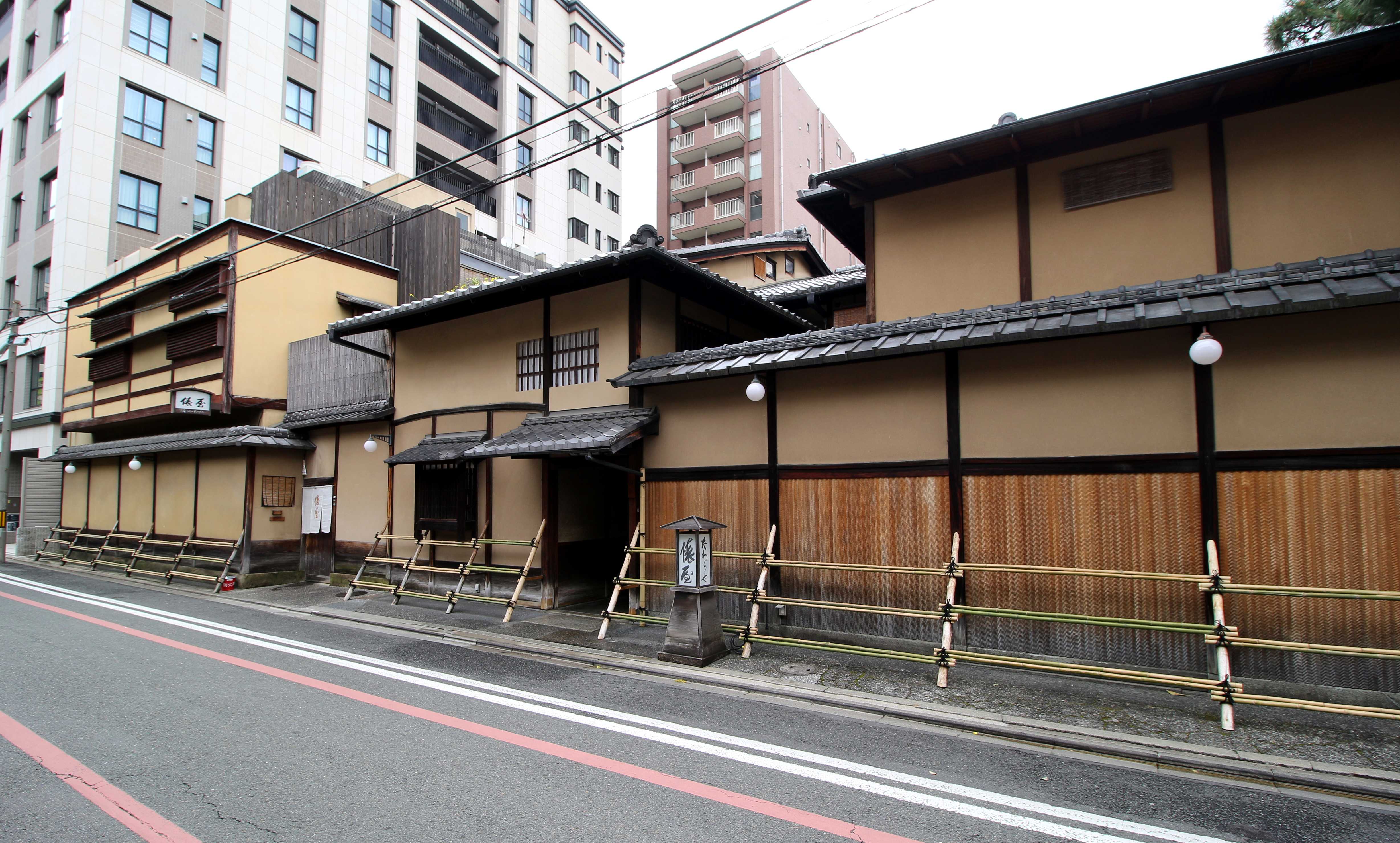 Tawaraya Ryokan in Kyoto, Japan.